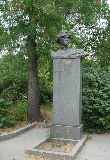 Poet Shushanik Kurghinian's tomb at the Komitas Pantheon-Park. 11/6